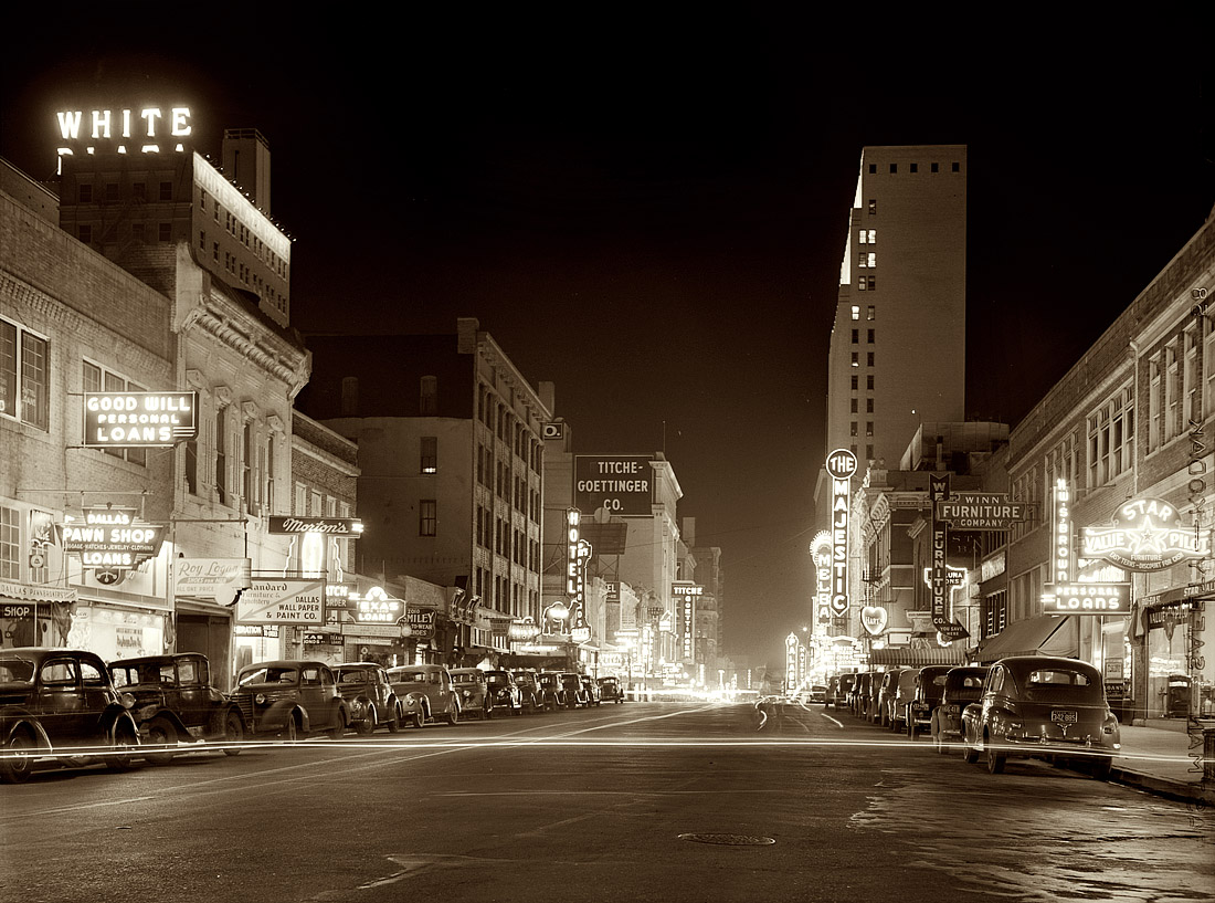 Night view, downtown section. Elm Street. Theater Row in Dallas, Texas